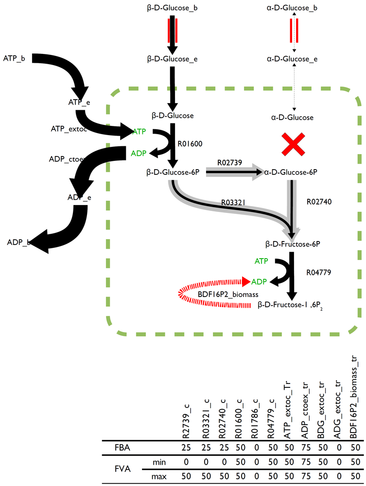 Visual representation of flux-variablity analysis (FVA) performed on the top six reactions of glycolysis with non-lethal deletion of R01786 as shown on main FBA page. Restriction on the direction (forward) of R03321 and R02740 are included and simulation conducted with SurreyFBA. Variability of fluxes (in light grey) shown at four times width with chevrons noting possible direction of flow.